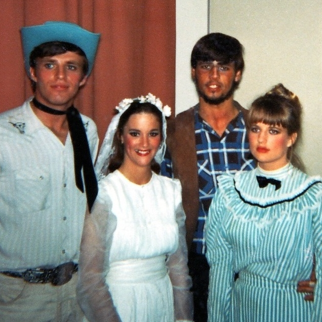 (Generated from English Wikipedia) Broadway by the Bay/San Mateo Civic Light Opera - Members of the cast of the 1966 production of Oklahoma!